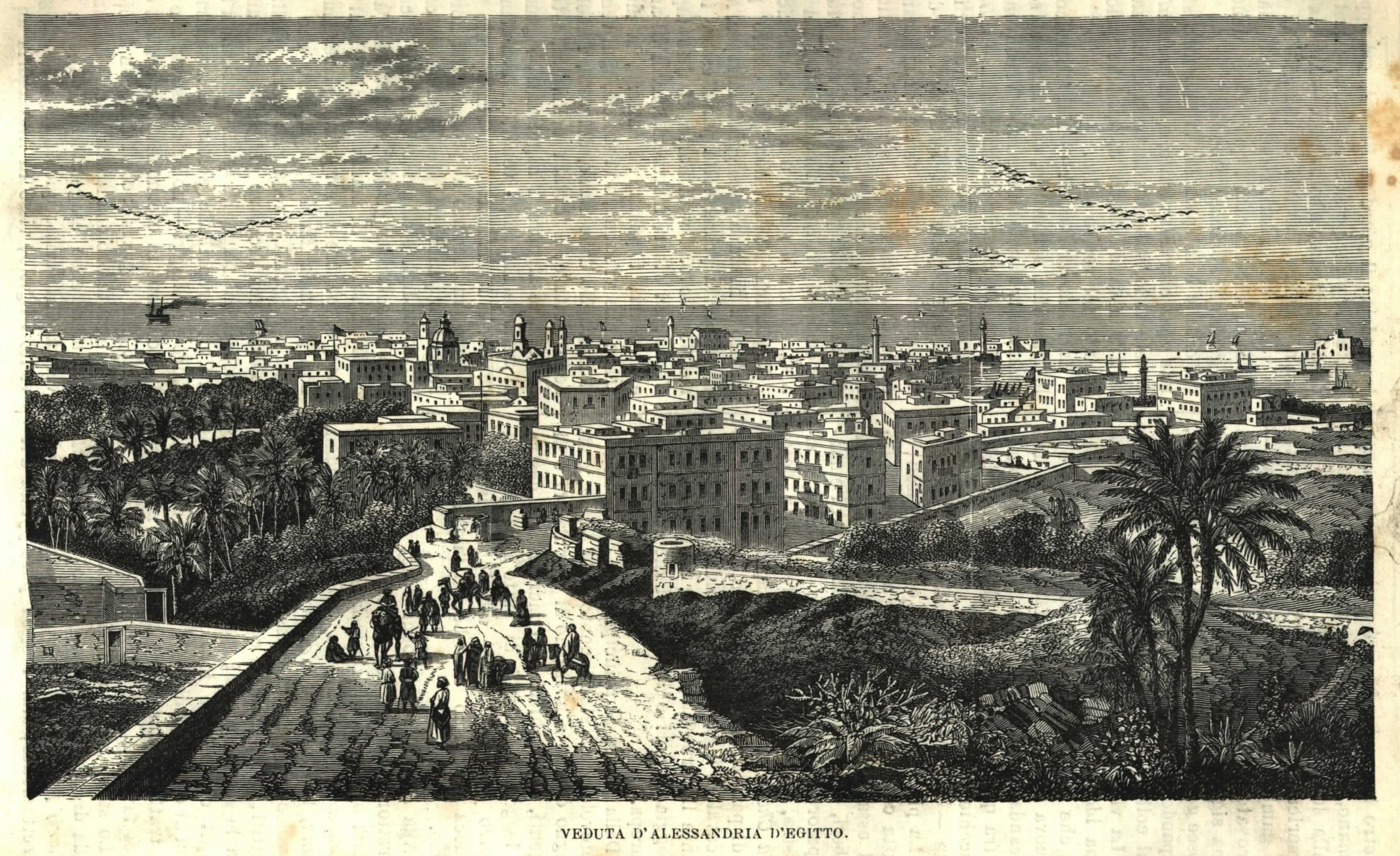 Alexandria old drawings